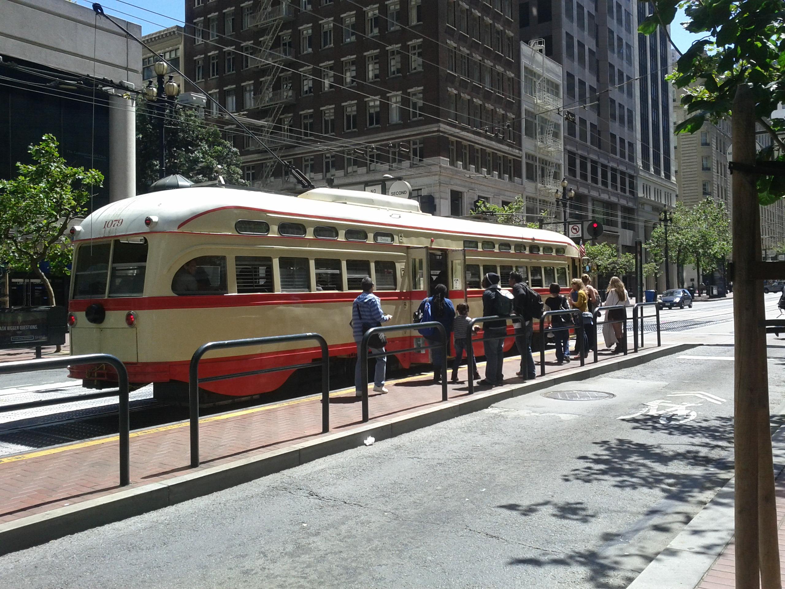 Muni #1079 as F Market and Wharves outbound at Market and 2nd Street in July 2012